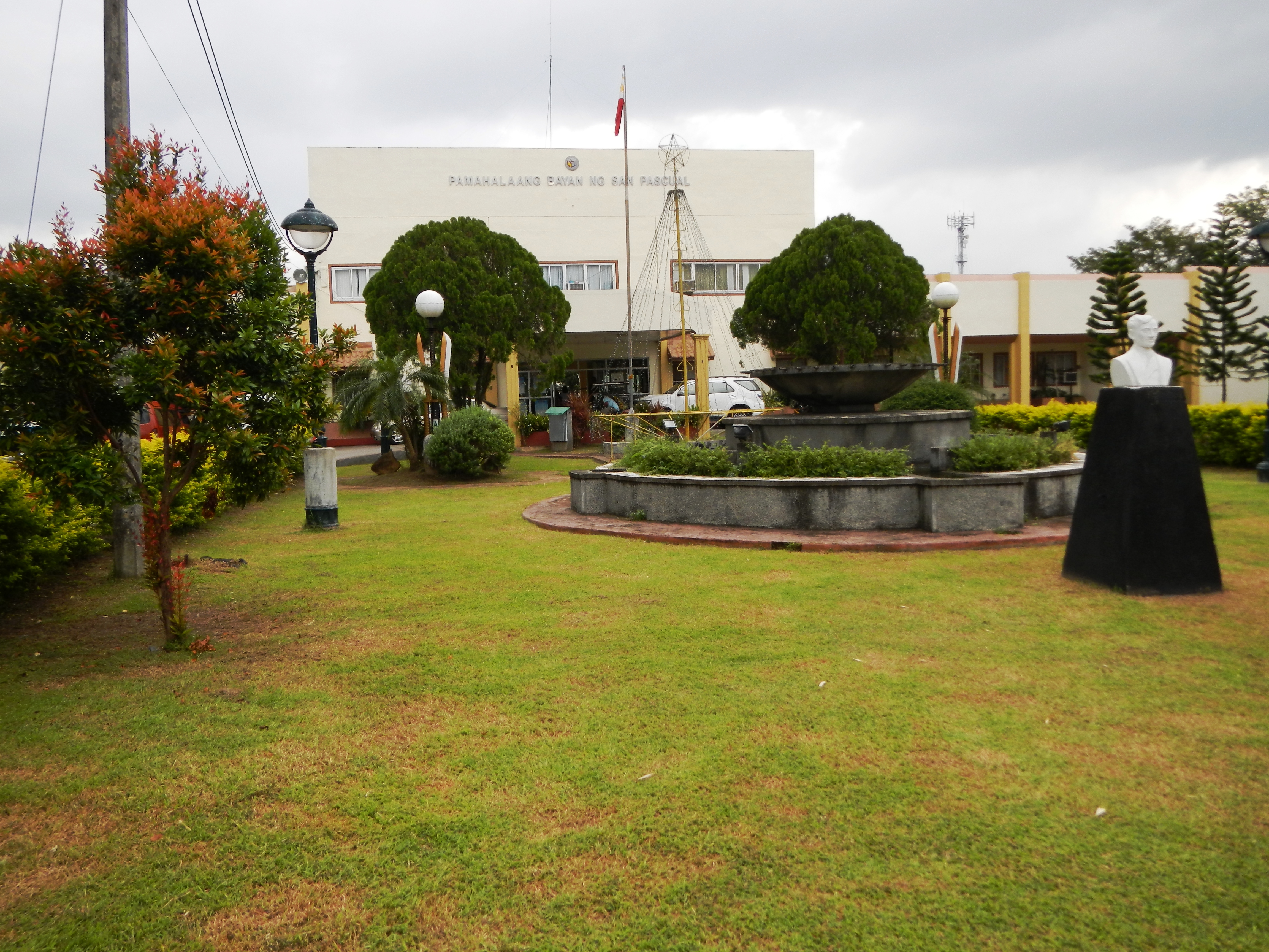 Upload Wizard photos of - the Official Seal, Logo and facade of the Municipal Hall of - San Pascual, Batangas (a first class municipality in the province of Batangas, Philippines latest census a population of 57,200 people in 9,744 households politically subdivided into 29 barangays).[1] Coordinates: 13°47'21"N 121°1'24"E.